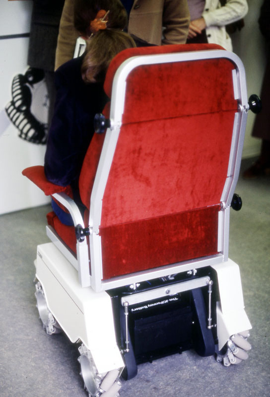 Photograph taken by Euchiasmus (me) on a conference exhibition stand which featured an electric wheelchair with Ilon wheels. This photo shows the back wheels of the wheelchair. The wheelchair had complete freedom of movement in any direction, and could also turn round on the spot.